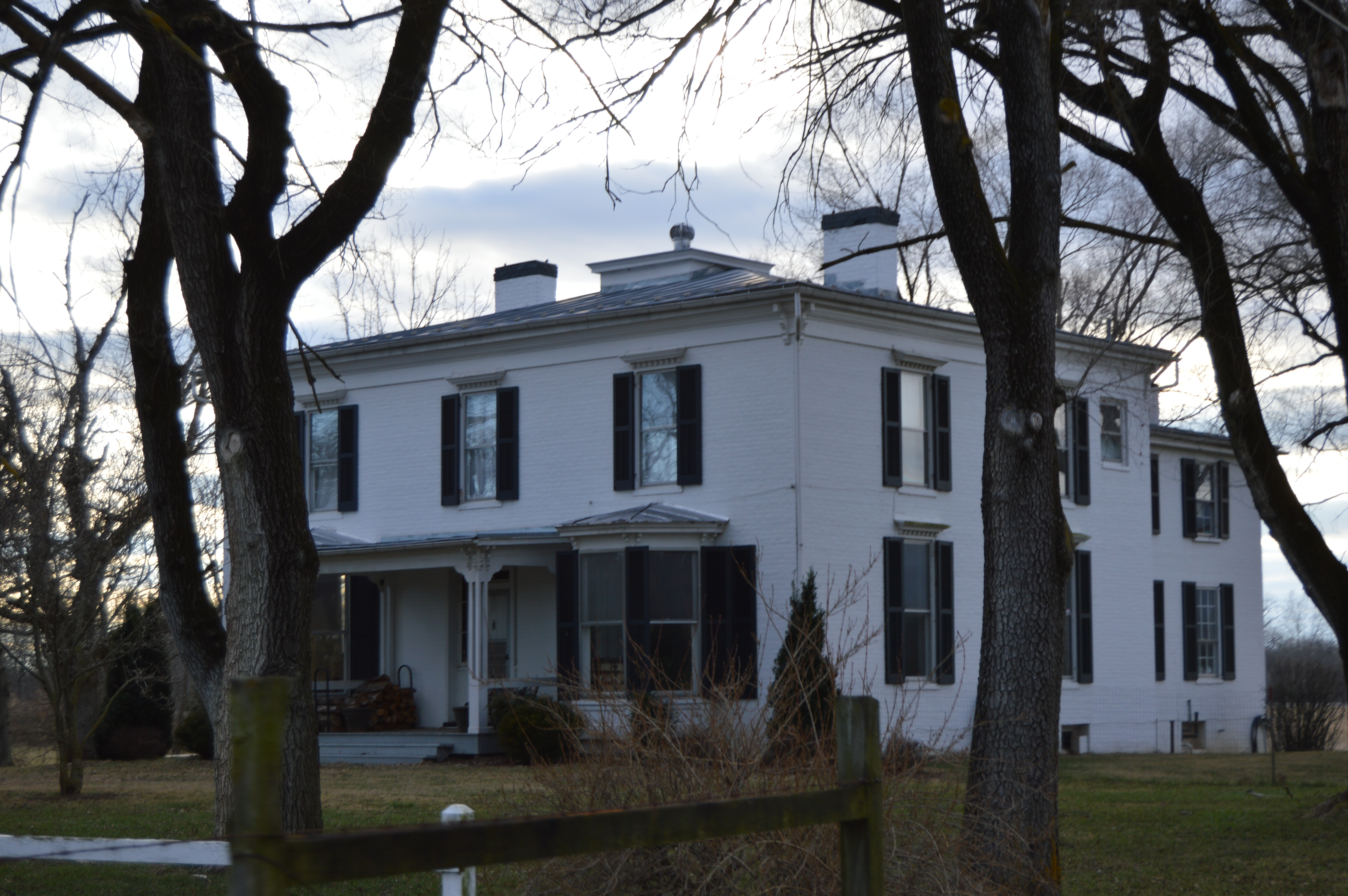 Northern front and western side of the Bon Air farmhouse, located on Bear Lithia Road north of Elkton in Rockingham County, Virginia, United States. Built in 1870, it is listed on the National Register of Historic Places.